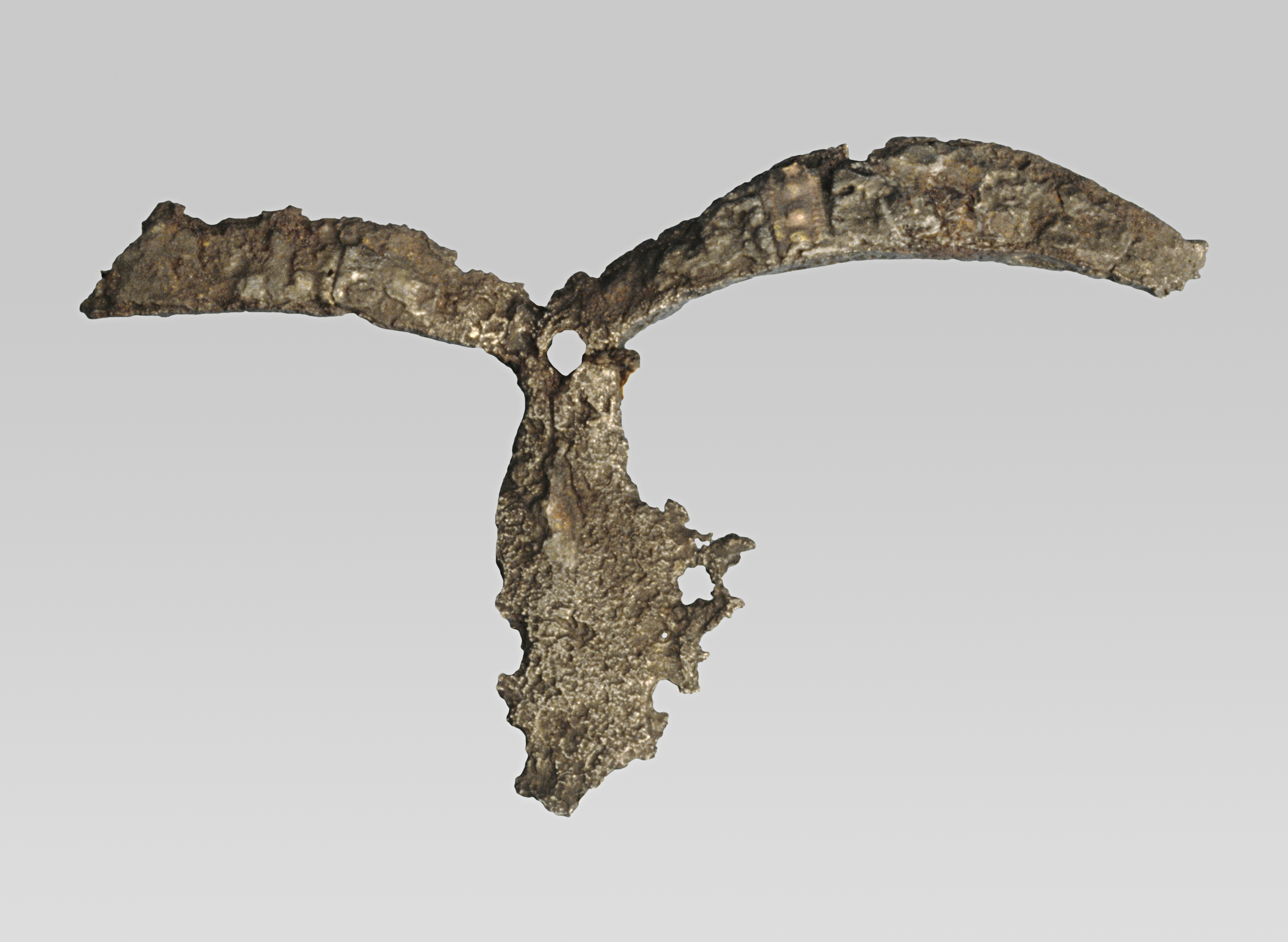 Viking age eyebrows and nose guard of a helmet